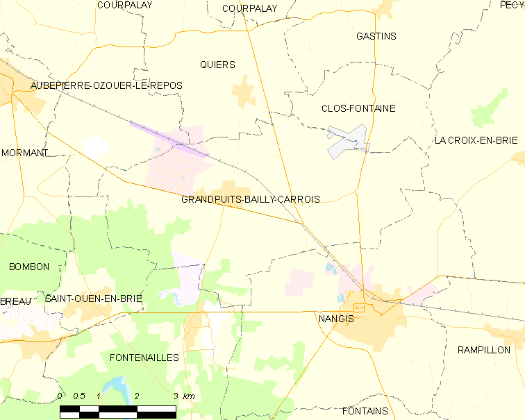 Map of French municipality Grandpuits-Bailly-Carrois